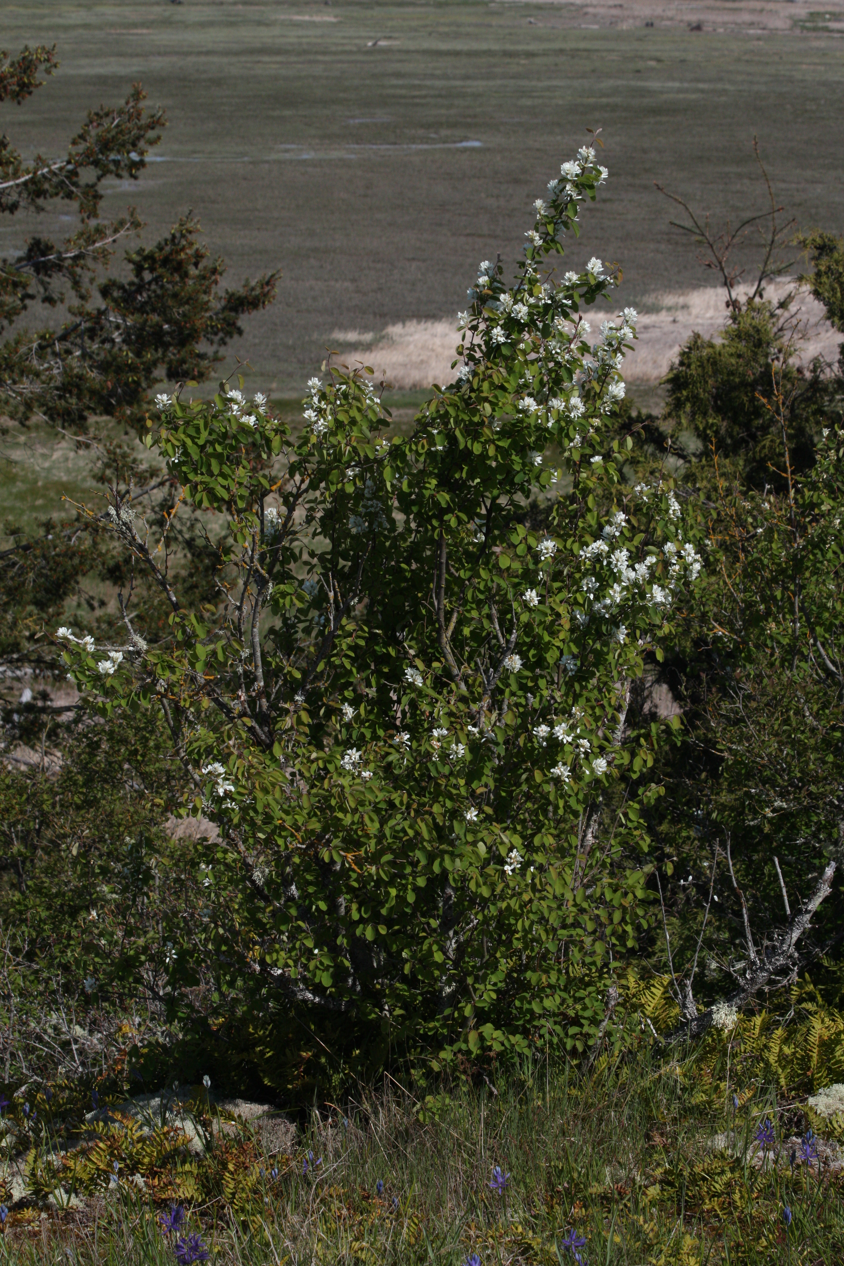 Western Serviceberry, Saskatoon Serviceberry Full Name with Authors: Amelanchier alnifolia (Nutt.) Nutt. ex M. Roemer var. semiintegrifolia (Hook.) C.L. Hitchc.